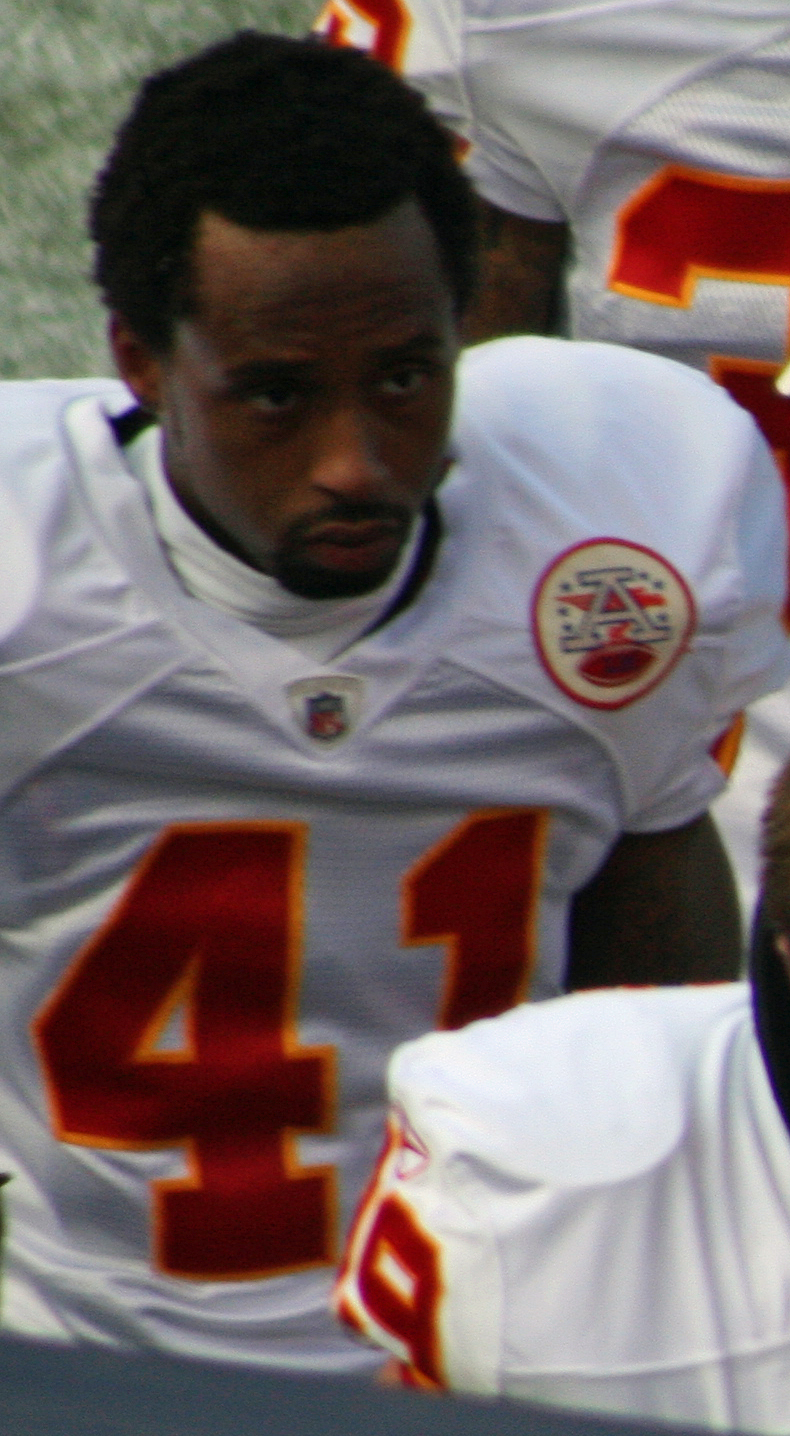 Jackie Bates, a player on the Kansas City Chiefs American football team.